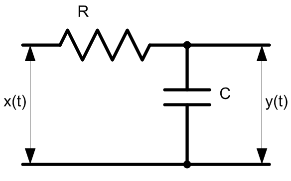 Circuit 1